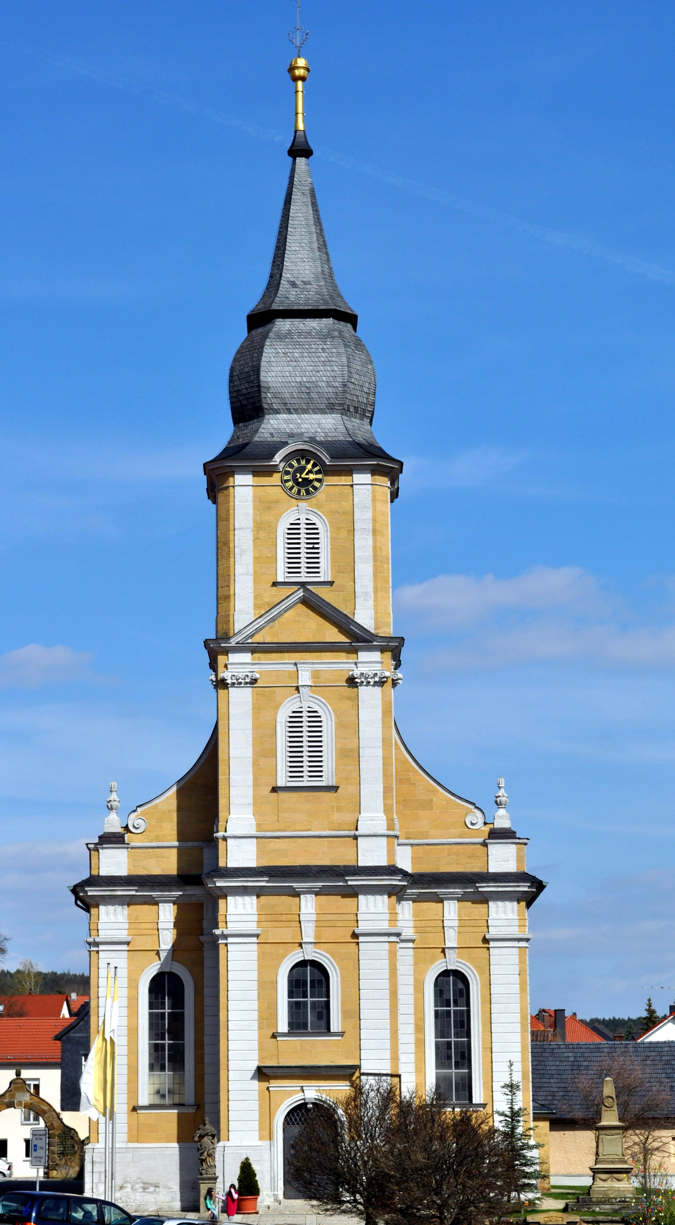 Catholic Church of Burgkunstadt